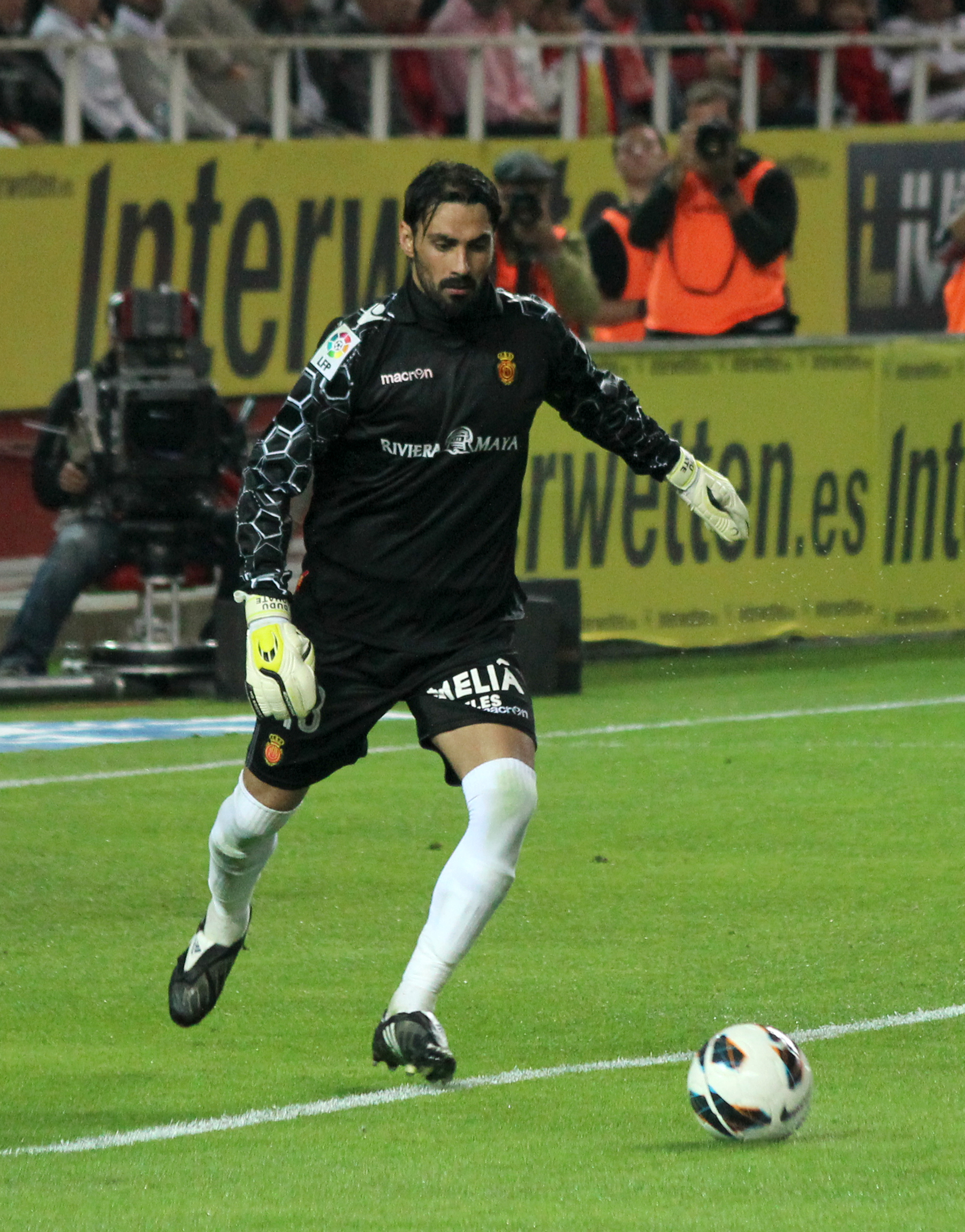 Israeli footballer who plays for RCD Mallorca in Spain, as a goalkeeper.